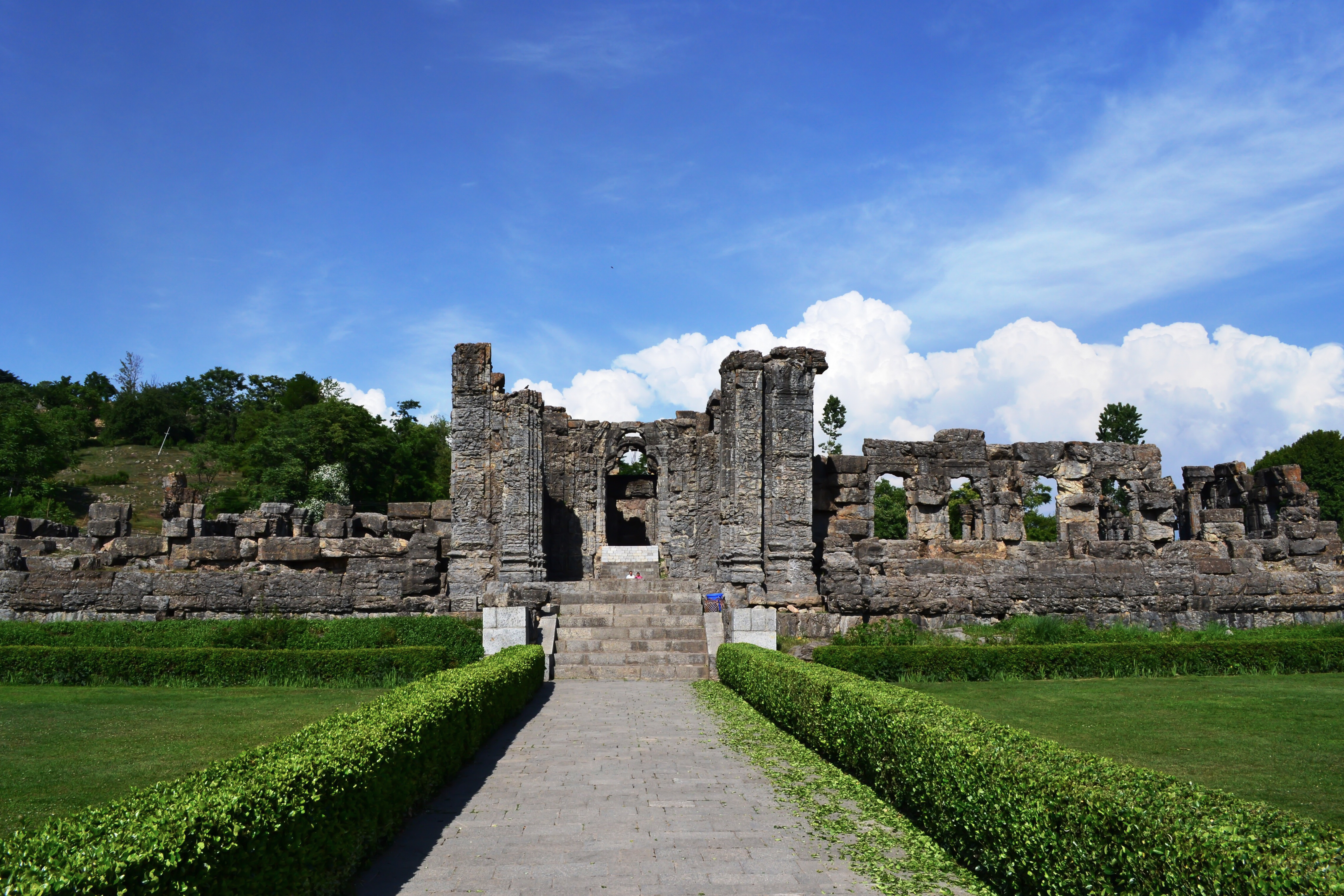 Kartanda (Sun Temple)